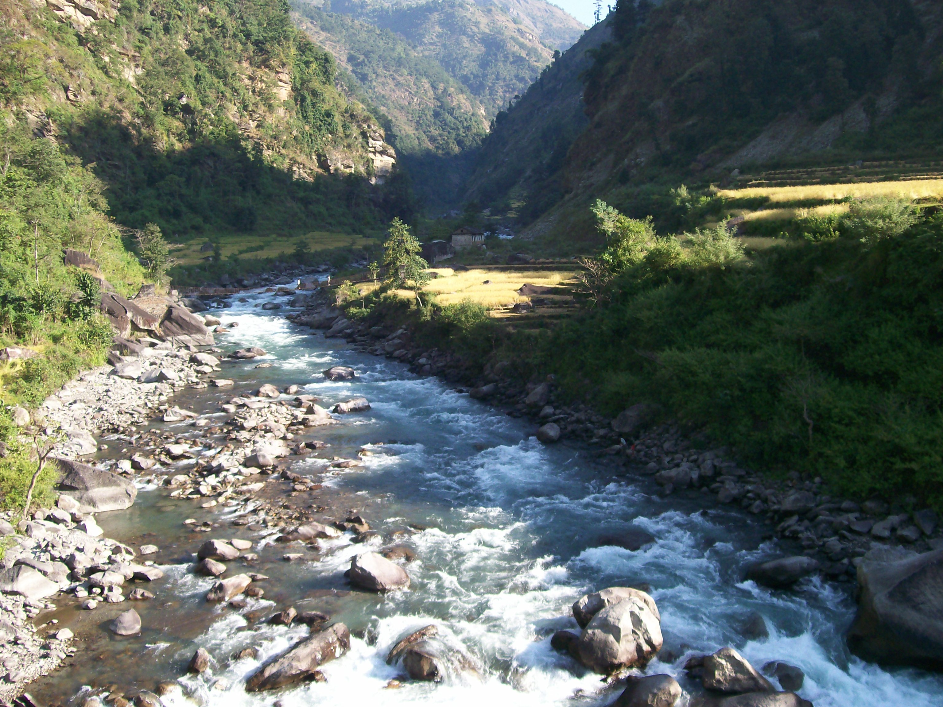 Likhu Khola